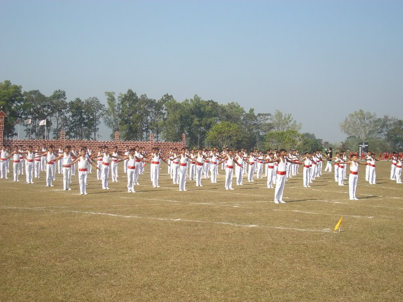 PT display by SSG cadets